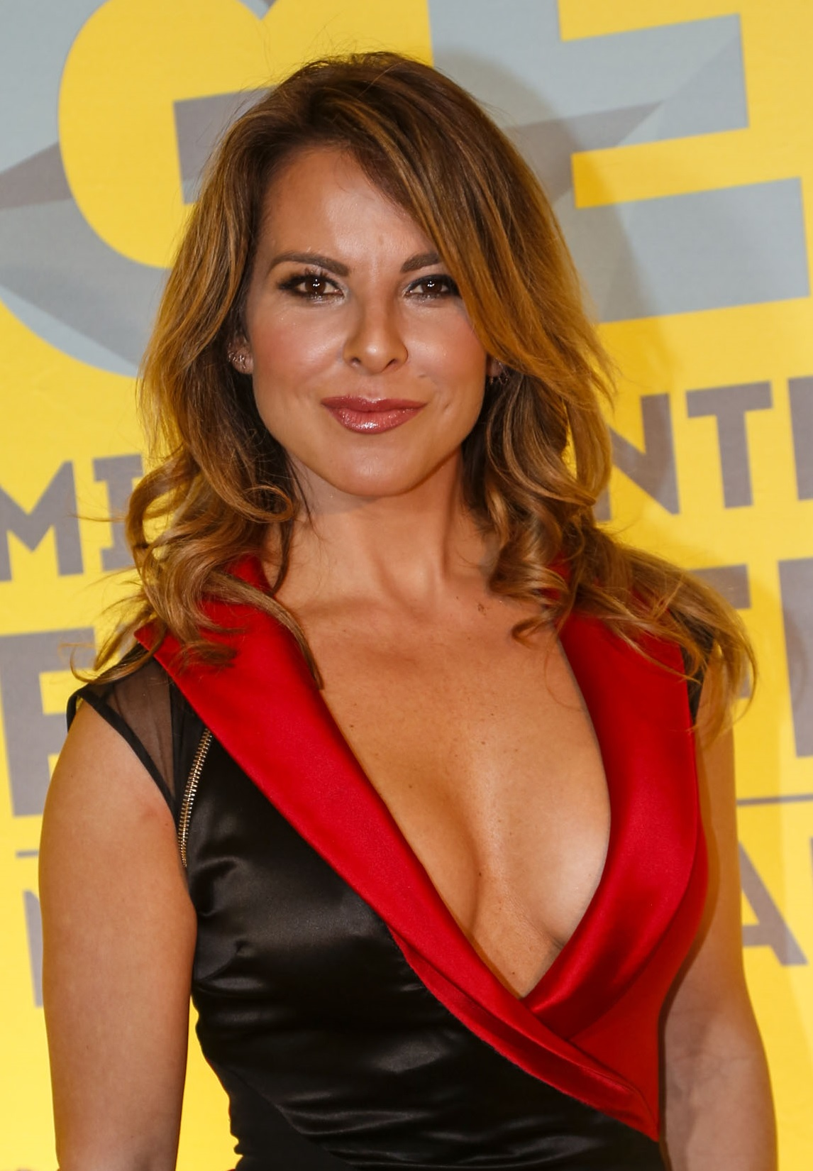 Kate del Castillo. 2015 Miami Film Festival. GEMS opening night and red carpet, Cubaocho and Tower Theater, October 22, 2015